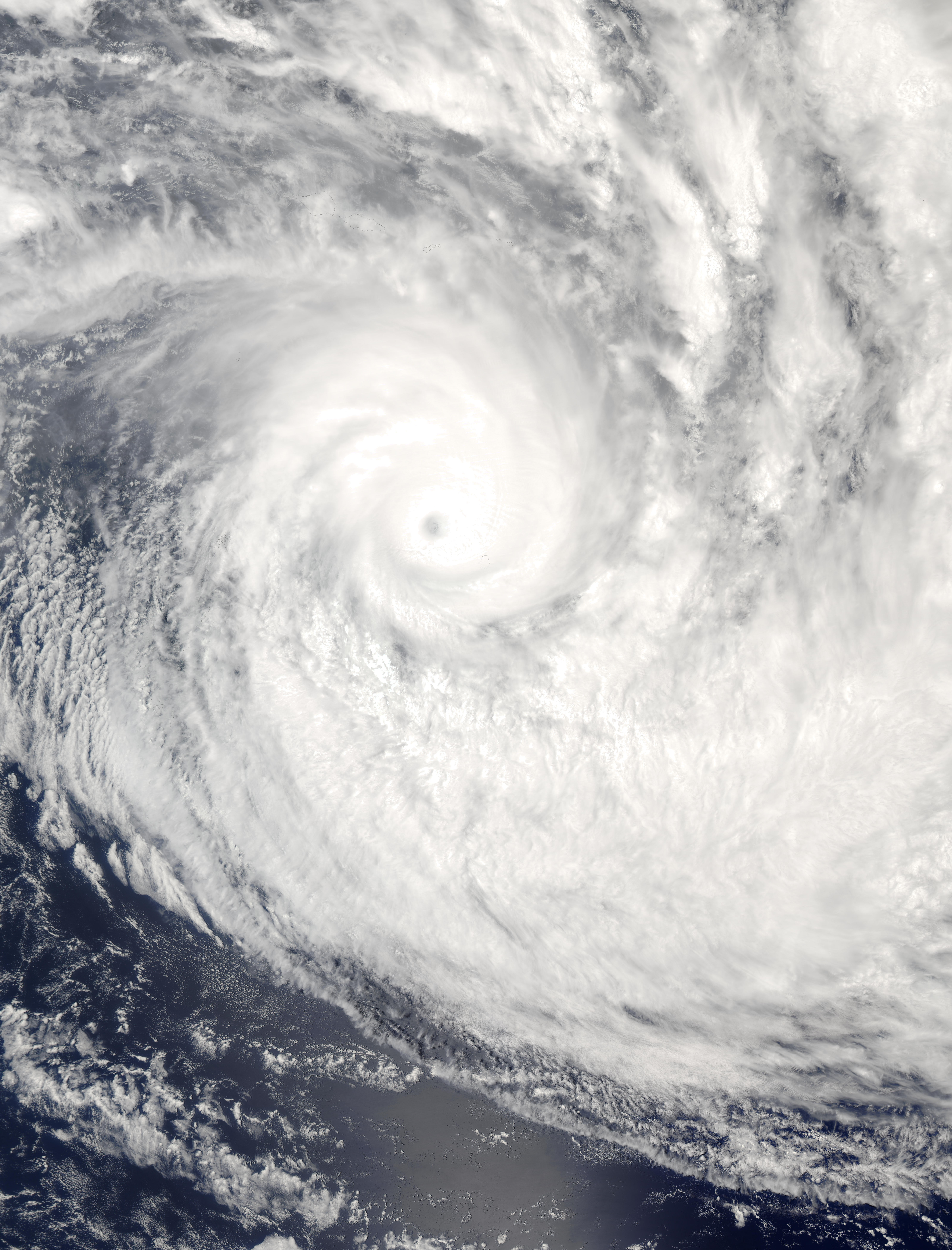 Cyclone Heta approaches the island of Niue in this true-color Moderate Resolution Imaging Spectroradiometer (MODIS) image acquired on January 6, 2004 by the Aqua satellite. The storm blew through Samoa, seen in the top center, on January 5 with 105 mile-per-hour winds, which blew down trees and knocked out communications and power. The storm intensified as it moved southeast toward Niue. At the time this image was taken, Heta’s winds reached a powerful 150 miles per hour with gusts up to 184 miles per hour. When Heta hit Niue on January 7, it hit with brutal force. Half of Alofi’s (the capital city) commercial sector was wiped out, taking with it the island’s communication and power sources, as well as many stores of fresh water. In the wake of the winds, huge waves hit the island and washed away many of the islander’s homes, and destroyed a hospital. The waves also caused a number of injuries and deaths.